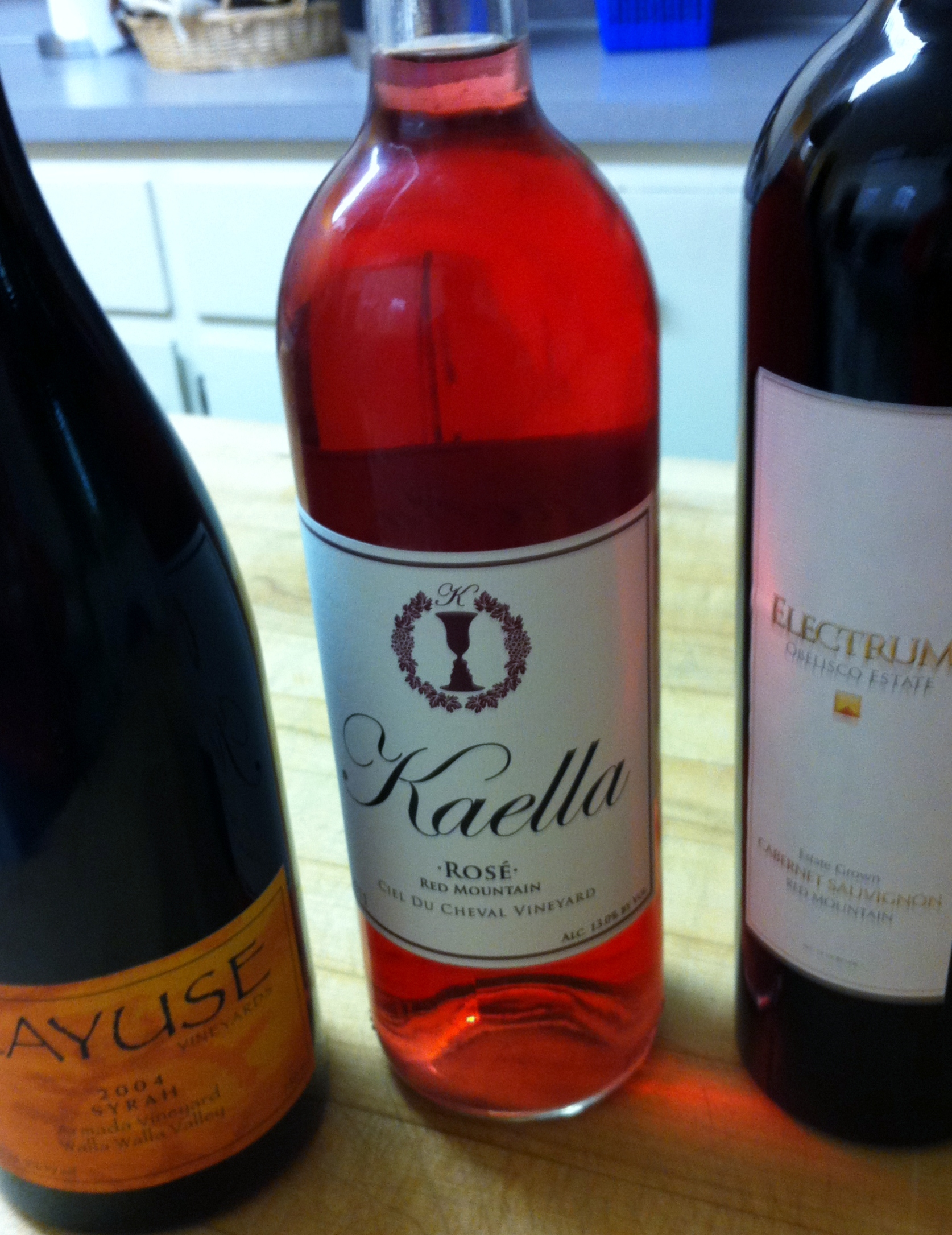 An assortment of Washington wines including a Syrah from Cayuse in Walla Walla, a Sangiovese rose from Ciel du Cheval vineyard in Red Mountain made by Kaella wineery and another Red Mountain red wine from Oblisco.